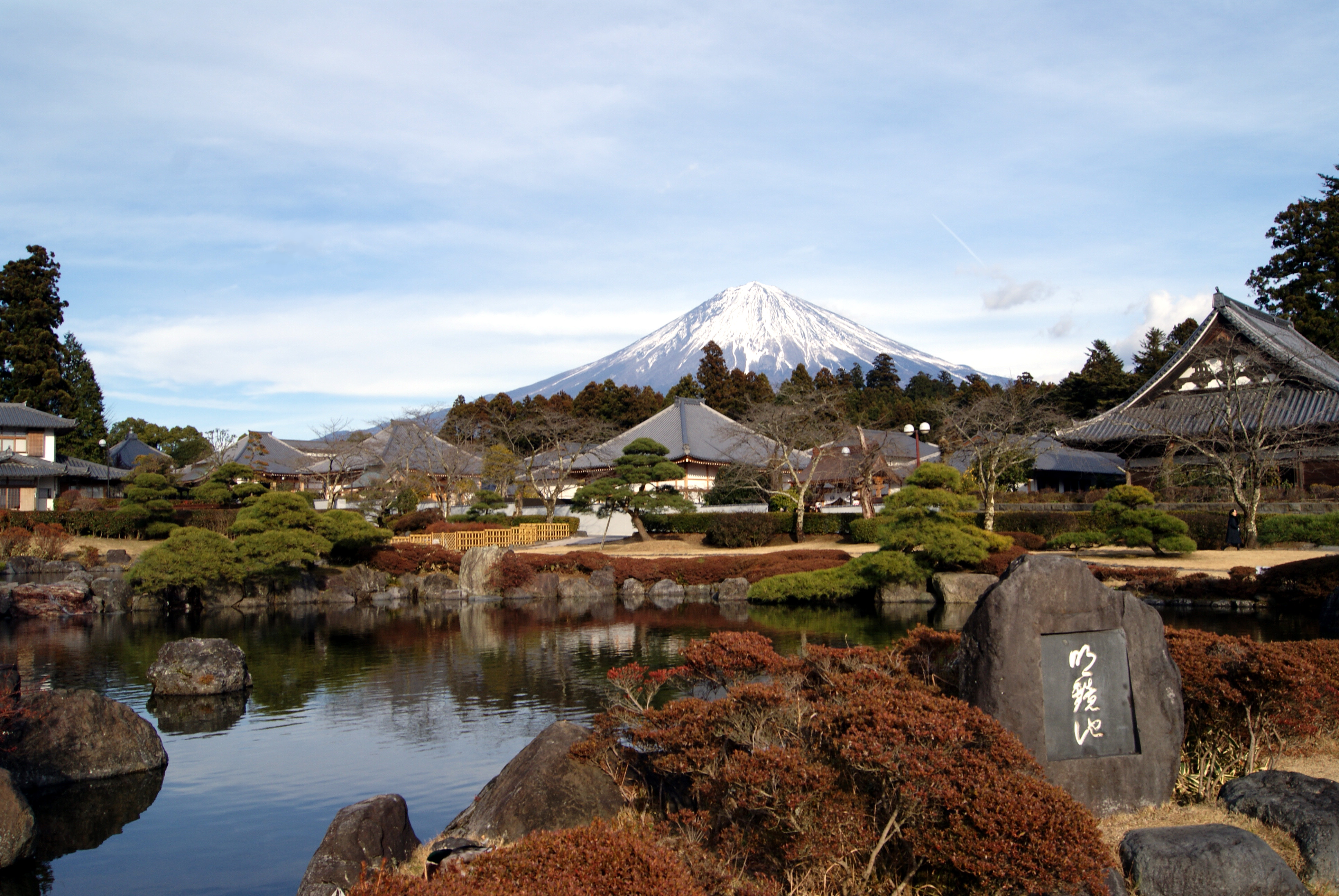 hōshōen of Taiseki-ji.